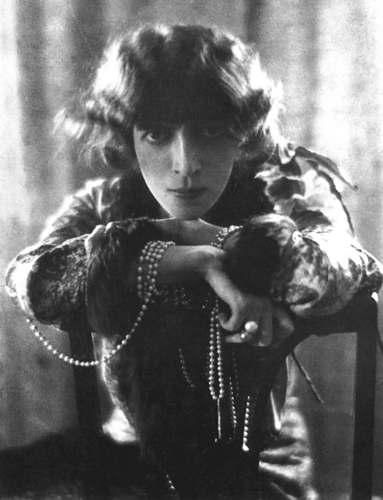 Pearls with Luisa Casati by Adolf de Meyer, 1912